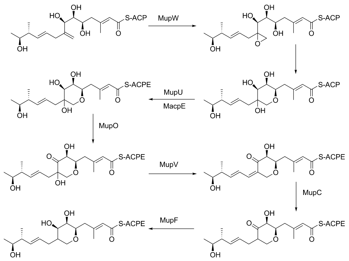 Pyran formation of Mupirocin AK232